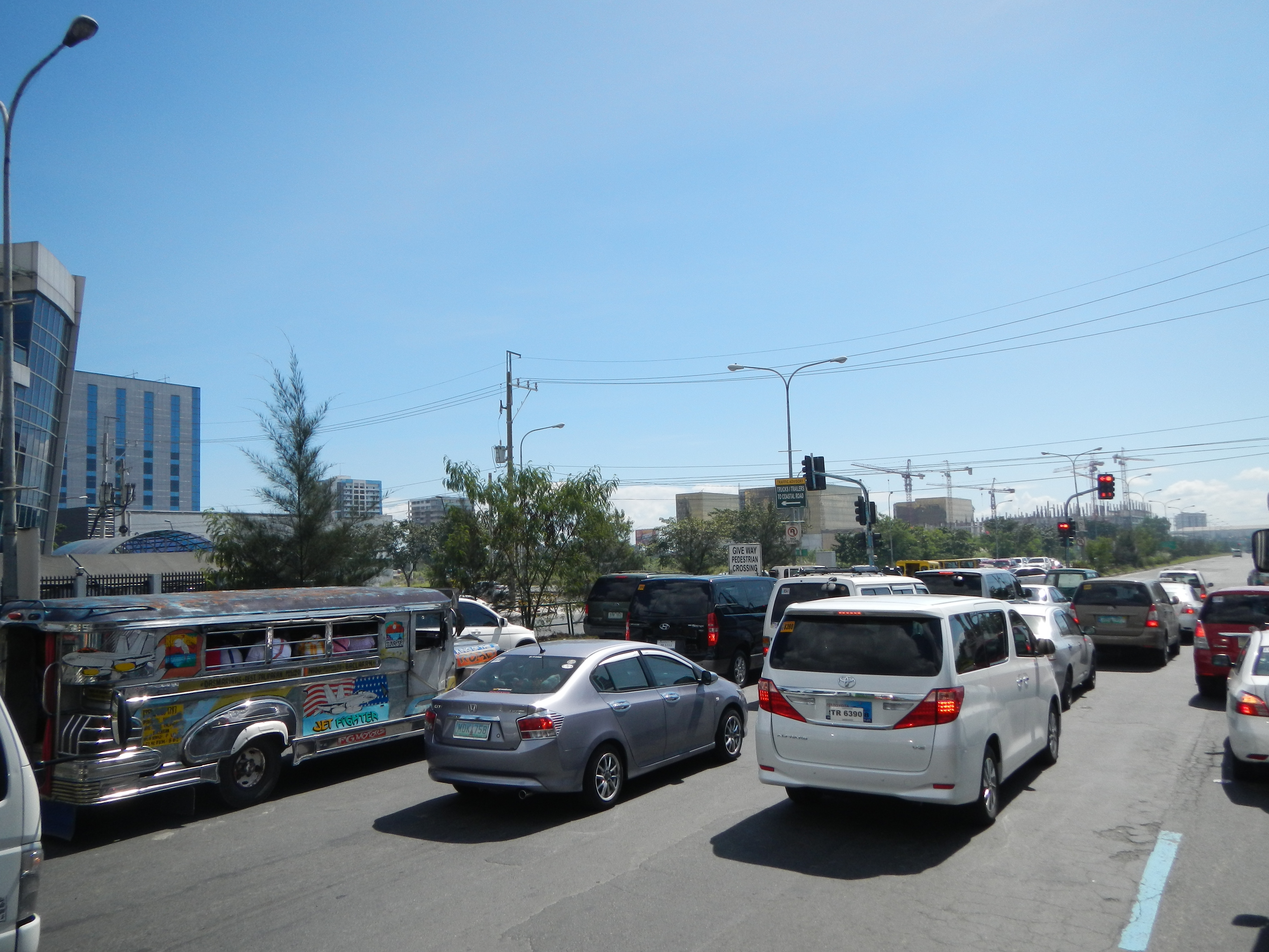 Upload Wizard photos of - Macapagal Boulevard [1] at Parañaque City [2], Department of Foreign_Affairs (Philippines) [3] Uniwide Sales Coastal Mall, Provincial Bus Terminal - Metropolitan Manila Development Authority[4] Southwest Integrated Transport System, Parañaque City; Nota Bene - the Central Bus, Jeep, FX or Van Terminal is the only place where travelers and tourists can go to get a ride to Cavite and Batangas towns and Cities.